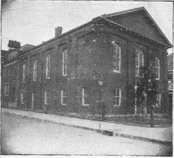 Photo of the Temple B'er Chayim, in 1923.